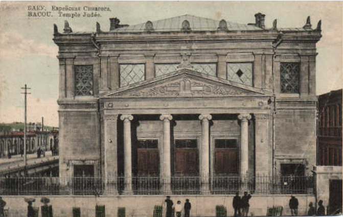 Jews sinagogue in Baku